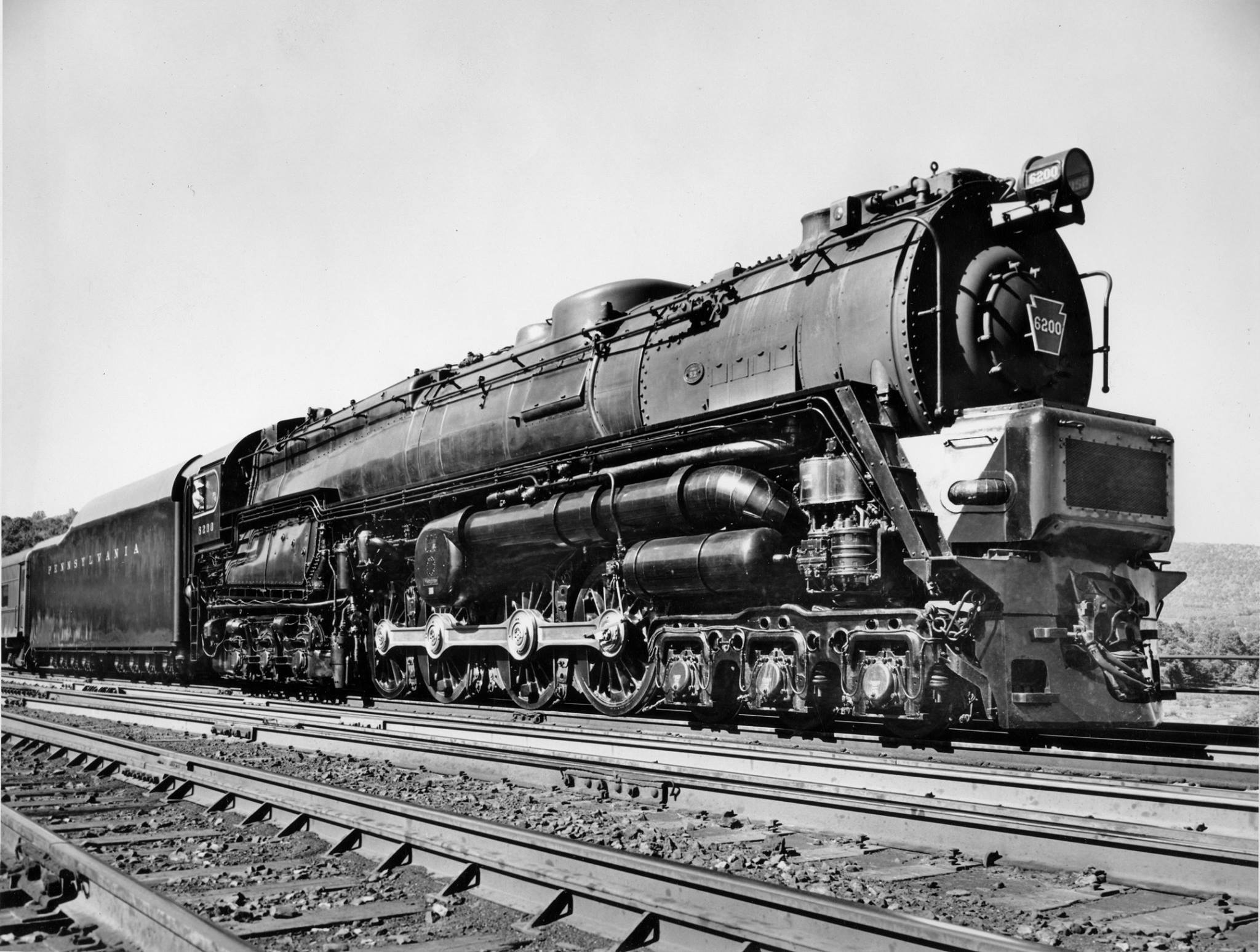 PRR S2 6-8-6 Turbine locomotive by Baldwin Locomotive Works